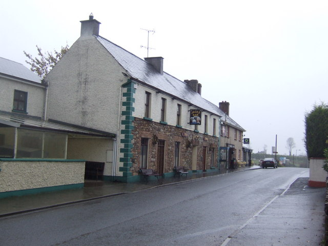 Jack's Bar By the R186 in the centre of Tedavnet village, Co. Monaghan.